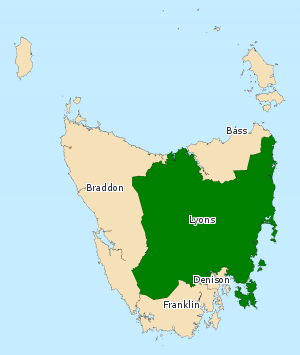 This image incorporates data that is: © Commonwealth of Australia (Australian Electoral Commission) 2009 Division of Lyons 2010